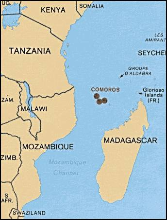 Where Comoros is located (from